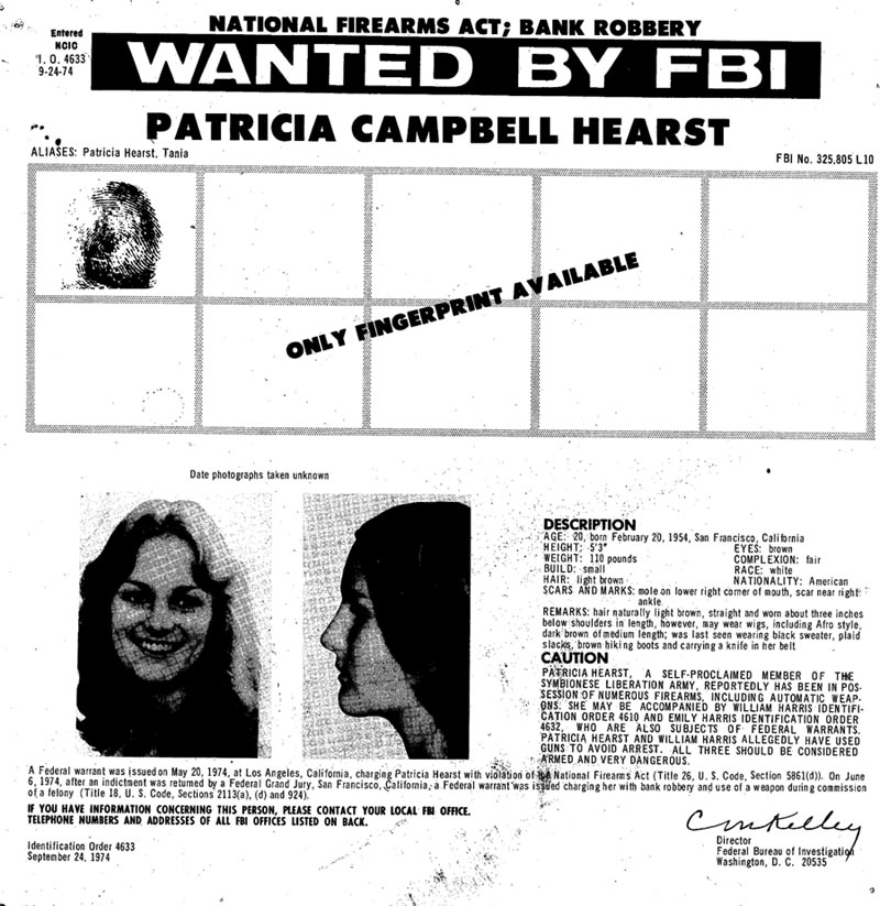 FBI "Wanted" poster of Patty Hearst